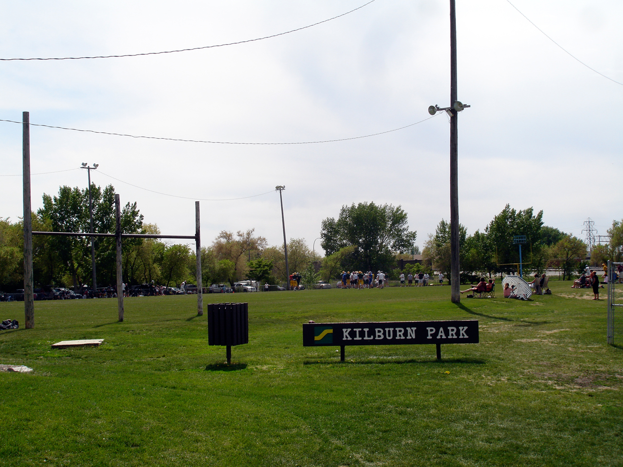 Kilburn Park, a public park and playing field in the Buena Vista neighbourhood of Saskatoon, Saskatchewan, Canada.